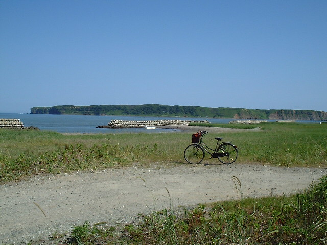 Photo of Kenbokki island.